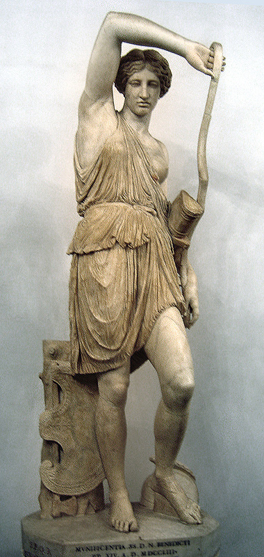 Head of a Wounded Amazon of the Capitol-Mattei type. Marble